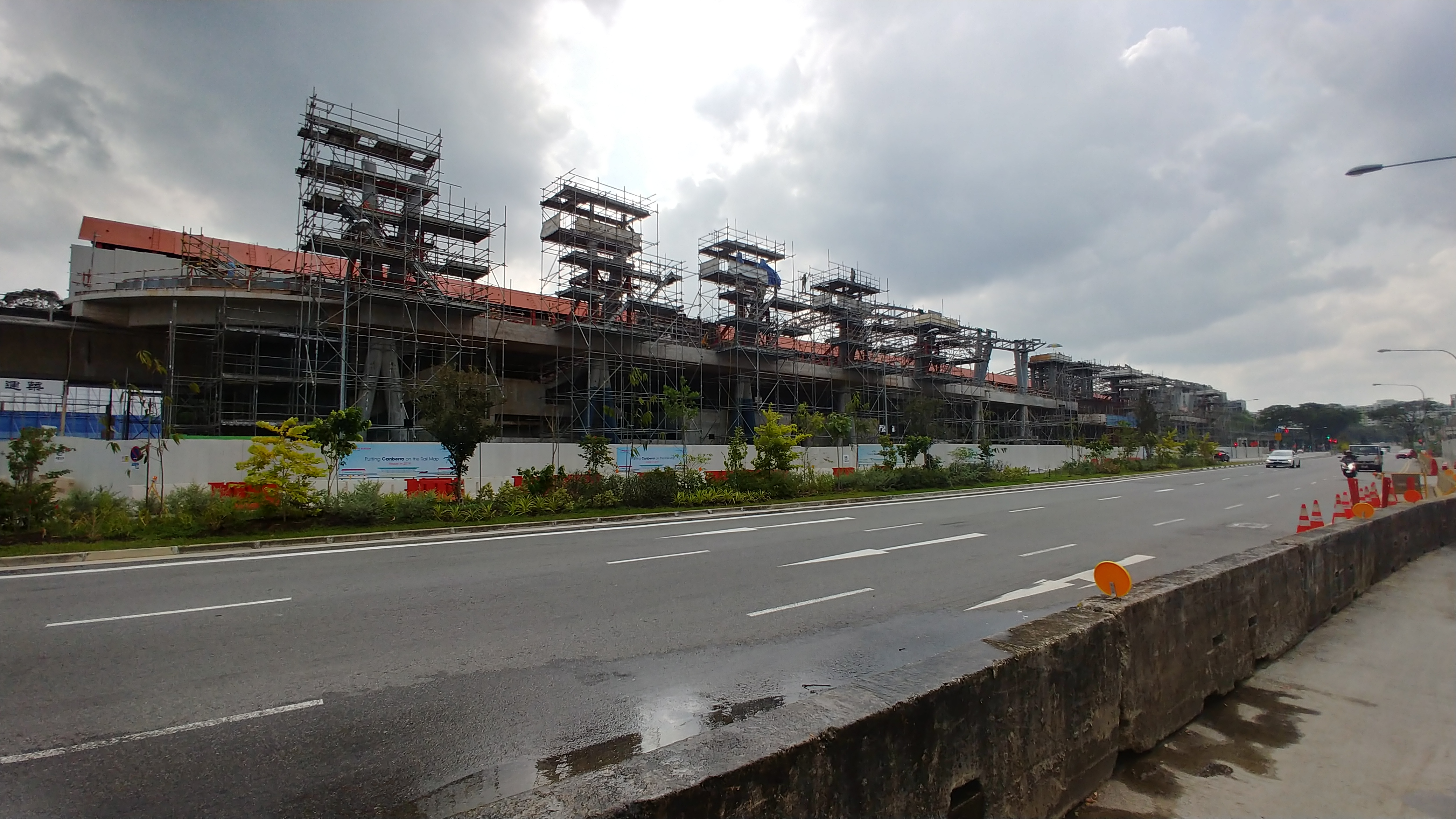 A view on the south side of Canberra Station, under construction from April 2018